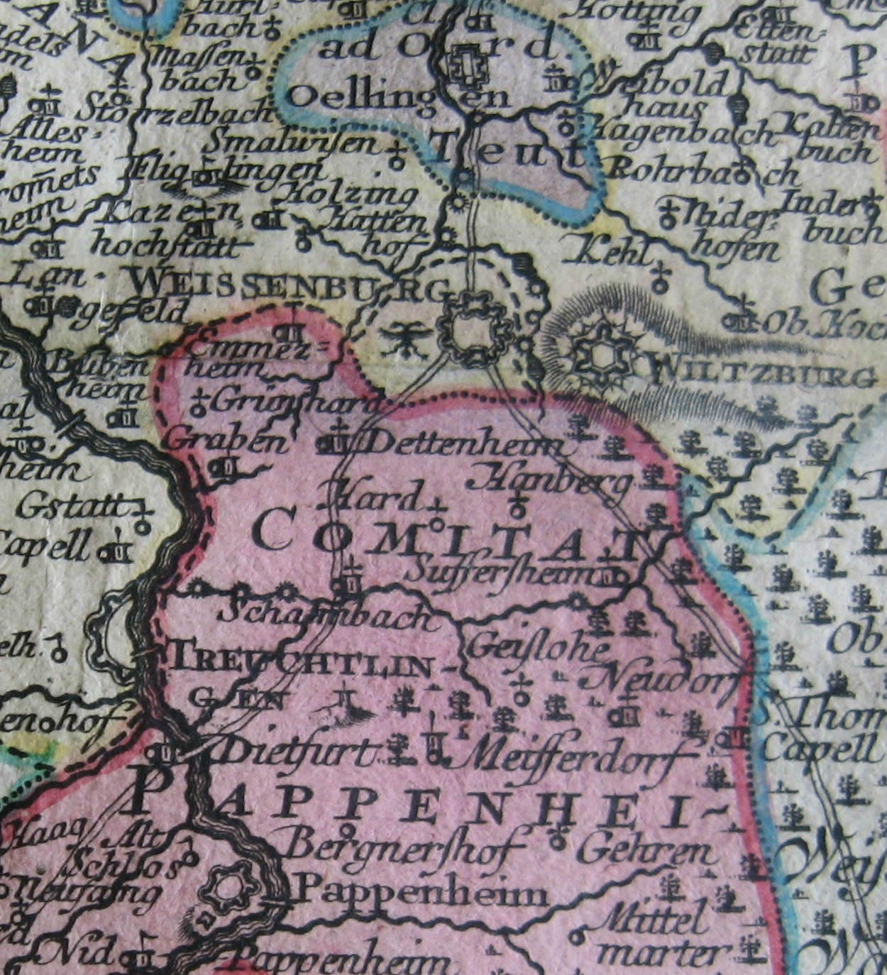 The small Free Imperial City of Weißenburg and part of the County of Pappenheim. The double-headed eagle shown next to Weißenburg indicates its status as an imperial city, one of the smallest of the Holy Roman Empire. Built in 1588, the mighty fortress of Wülzburg ("Wiltzburg"), stood on a hill just across the border with the Free Imperial City. It was built in 1588 by Margrave Georg Friedrich of Ansbach. The blue-coloured enclave of Ellingen north of Weißenburg was one of the many small fiefs that still remained in possession of the Teutonic Order in Franconia and Southwestern Germany after the Order lost its much vaster possessions in northeaster Germany and the Baltic in the late Middle Ages. Cropped from a map of the Margraviate of Ansbach by Matthäus Seutter, c. 1740.